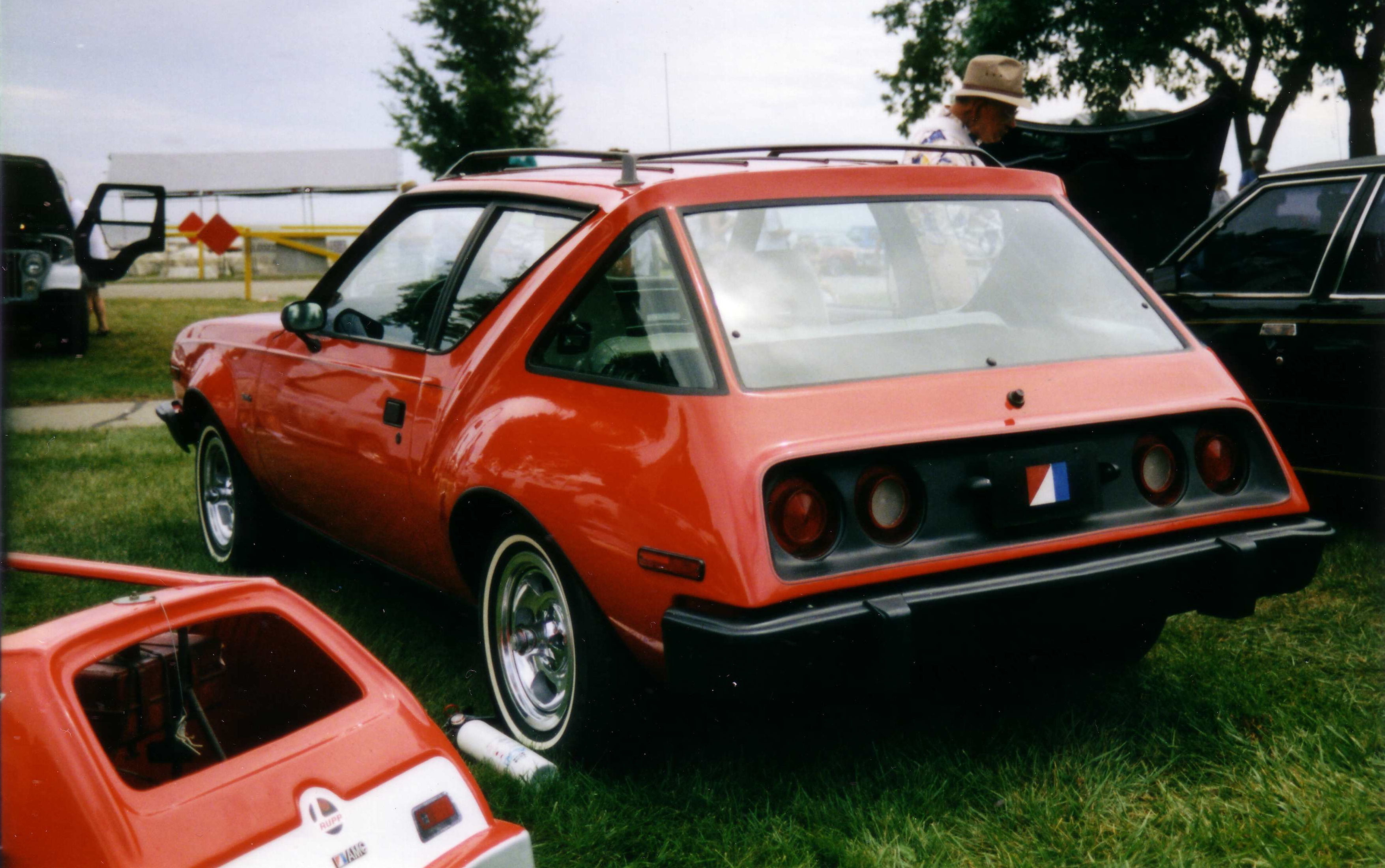 1974 AMC Gremlin XP concept car. An fully-operational experimental design by American Motors Corporation. Photograph taken during the 100th anniversary Rambler meet that was held at the lakefront park in Kenosha, Wisconsin.